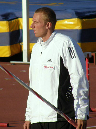 Igor Janik - 2010 Polish Championships in Athletics (Bielsko-Biała)